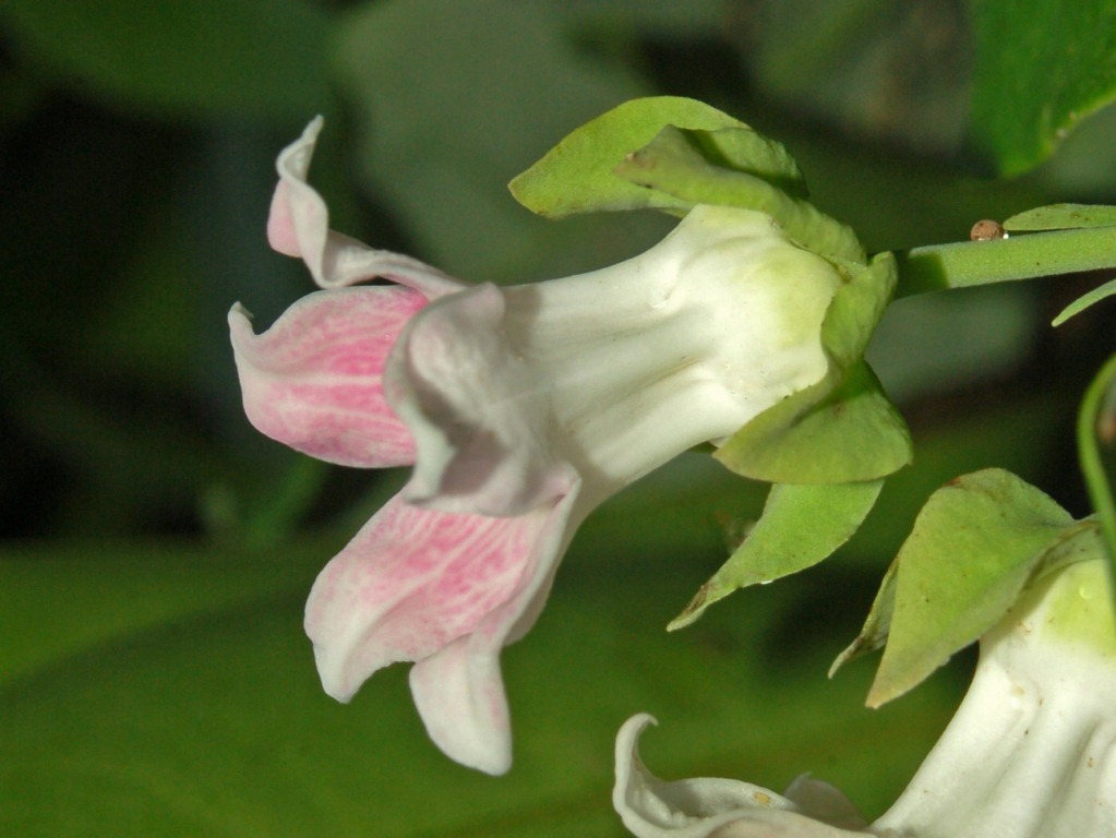 Araujia sericifera - Genova, Italy